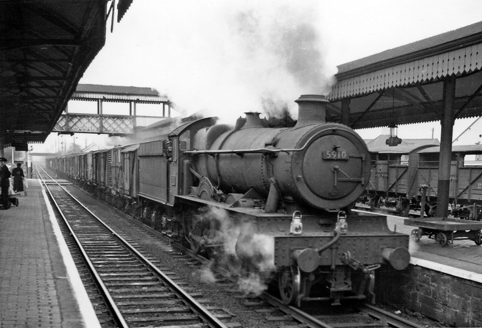 Up fast freight passing Gobowen Station. View NW, towards Ruabon, Wrexham and Chester; ex-GWR Birmingham - Shrewsbury - Chester main line. The Class C freight is headed by 4-6-0 No. 5910 'Park Hall' (built 6/31, withdrawn 9/62). Park Hall, a major Army Depot, happens to be a mile or so from this station, with a Halt to serve it on the former branch to Oswestry.